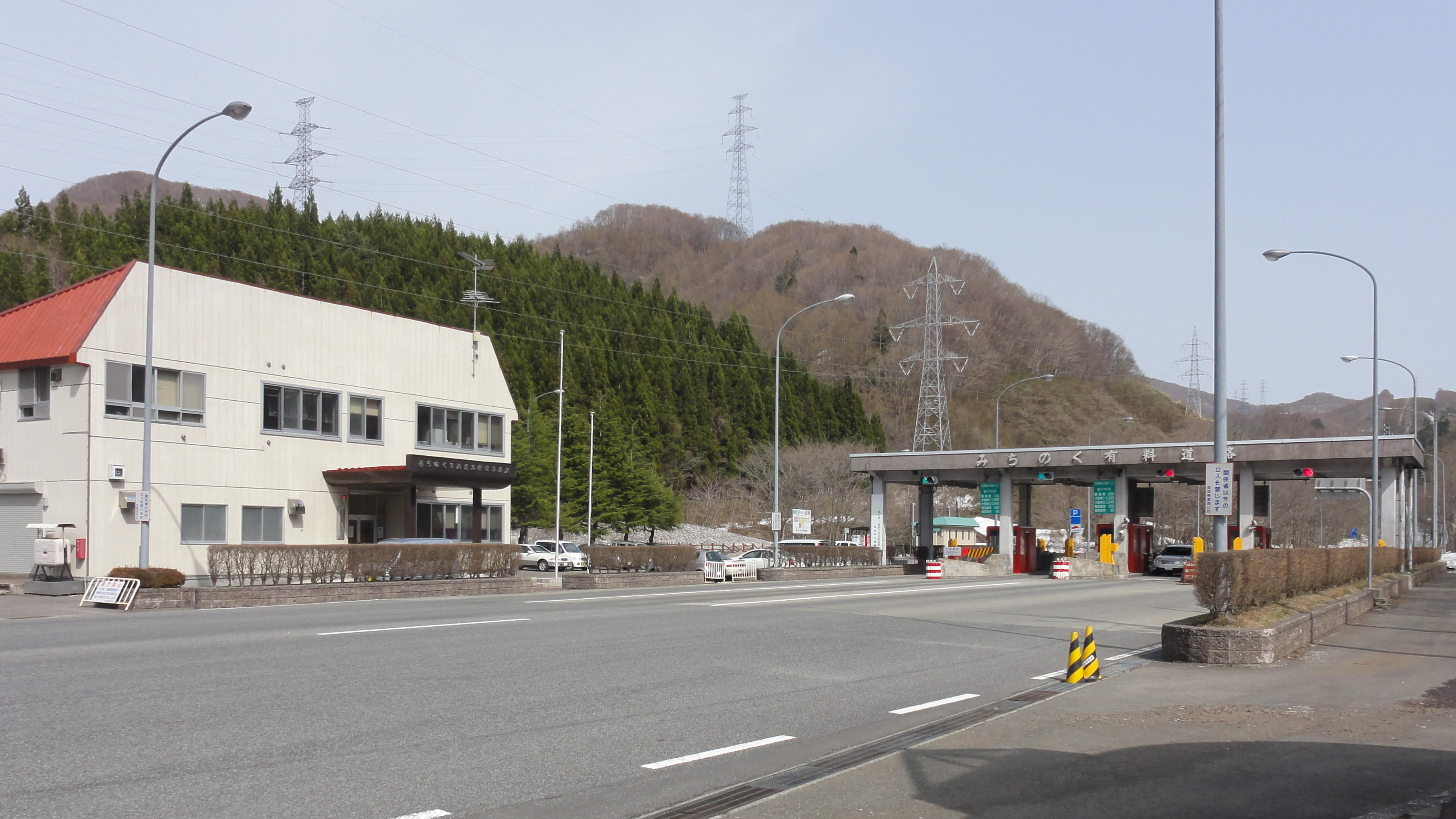 Michinoku toll roads,Aomori prefecture, Japan